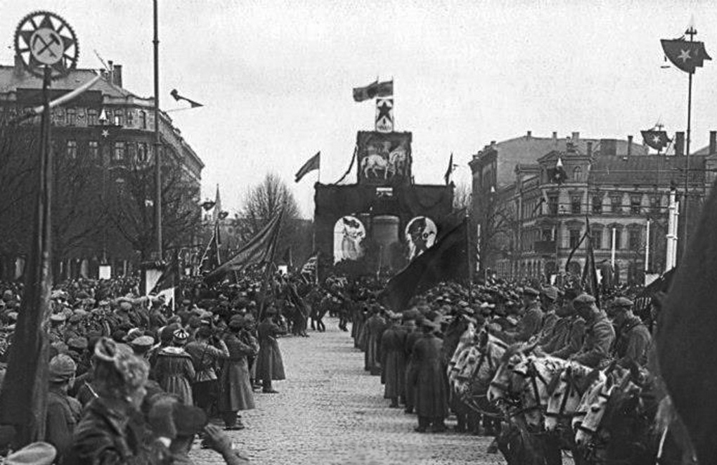 The Army of the Latvian SSR parades on 1st of May 1919.